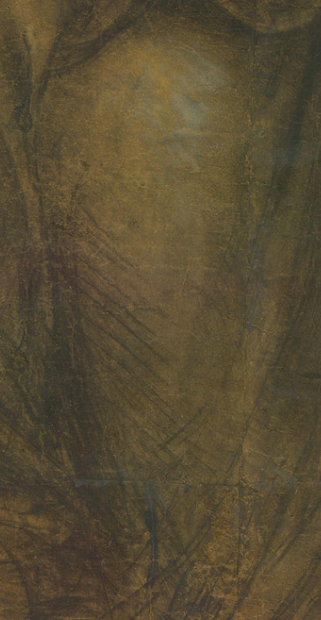 Detail of the cartoon showing hatching done by a left-handed man